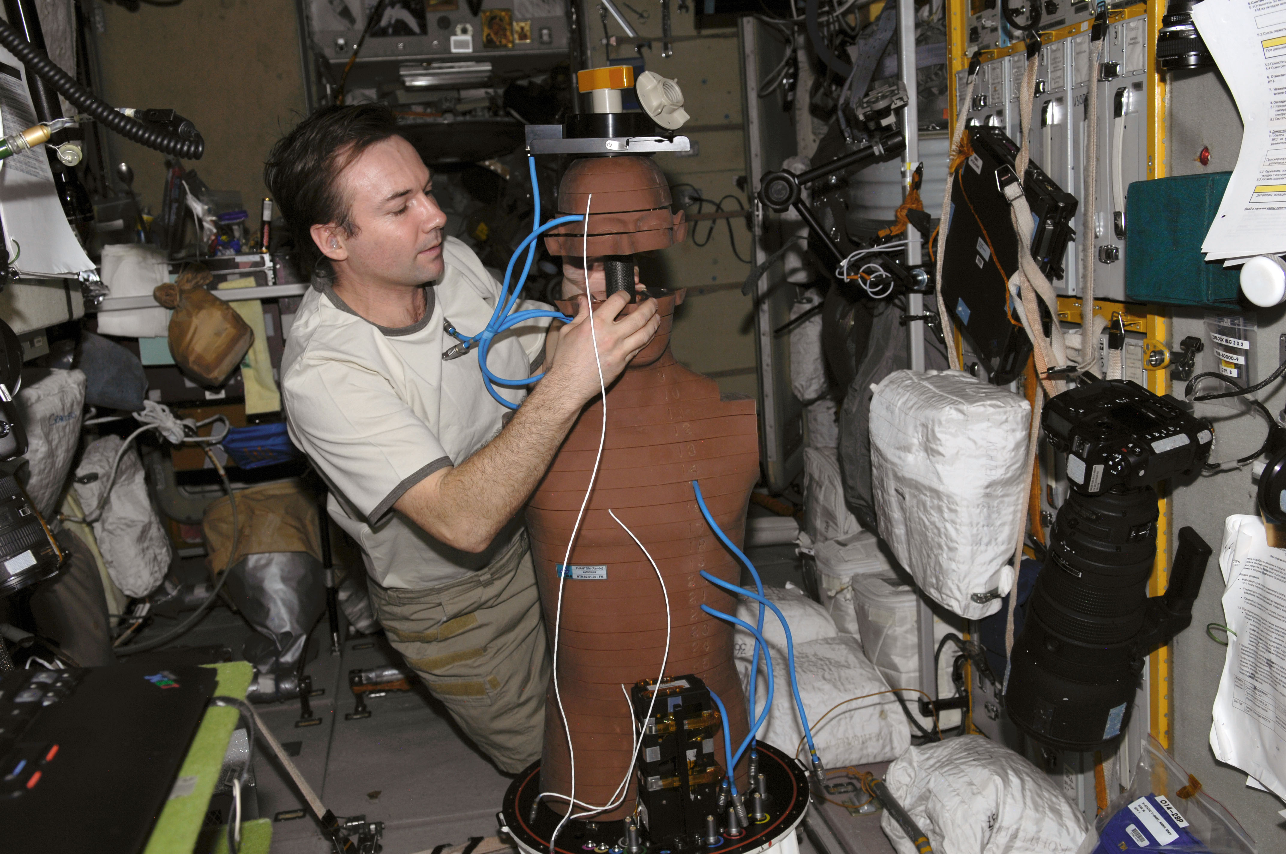 Cosmonaut Yury Lonchakov, Expedition 18 flight engineer, works with the European Matroshka-R Phantom experiment in the Zvezda Service Module of the International Space Station while Space Shuttle Discovery (STS-119) remains docked with the station. Matroshka, the name for the traditional Russian set of nestling dolls, is an antroph-amorphous model of a human torso designed for radiation studies.